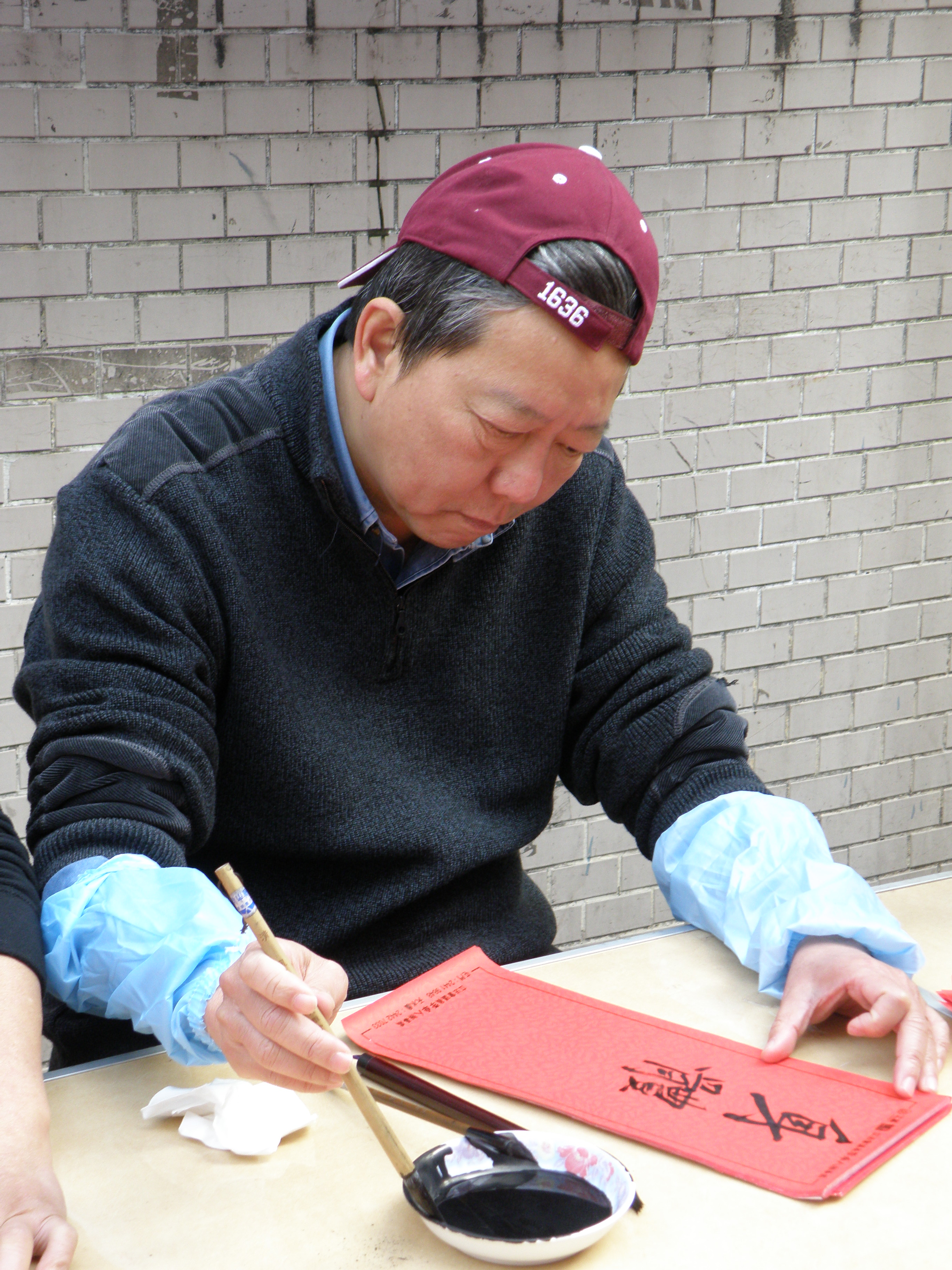 Lee Cheuk-yan in January 2014.